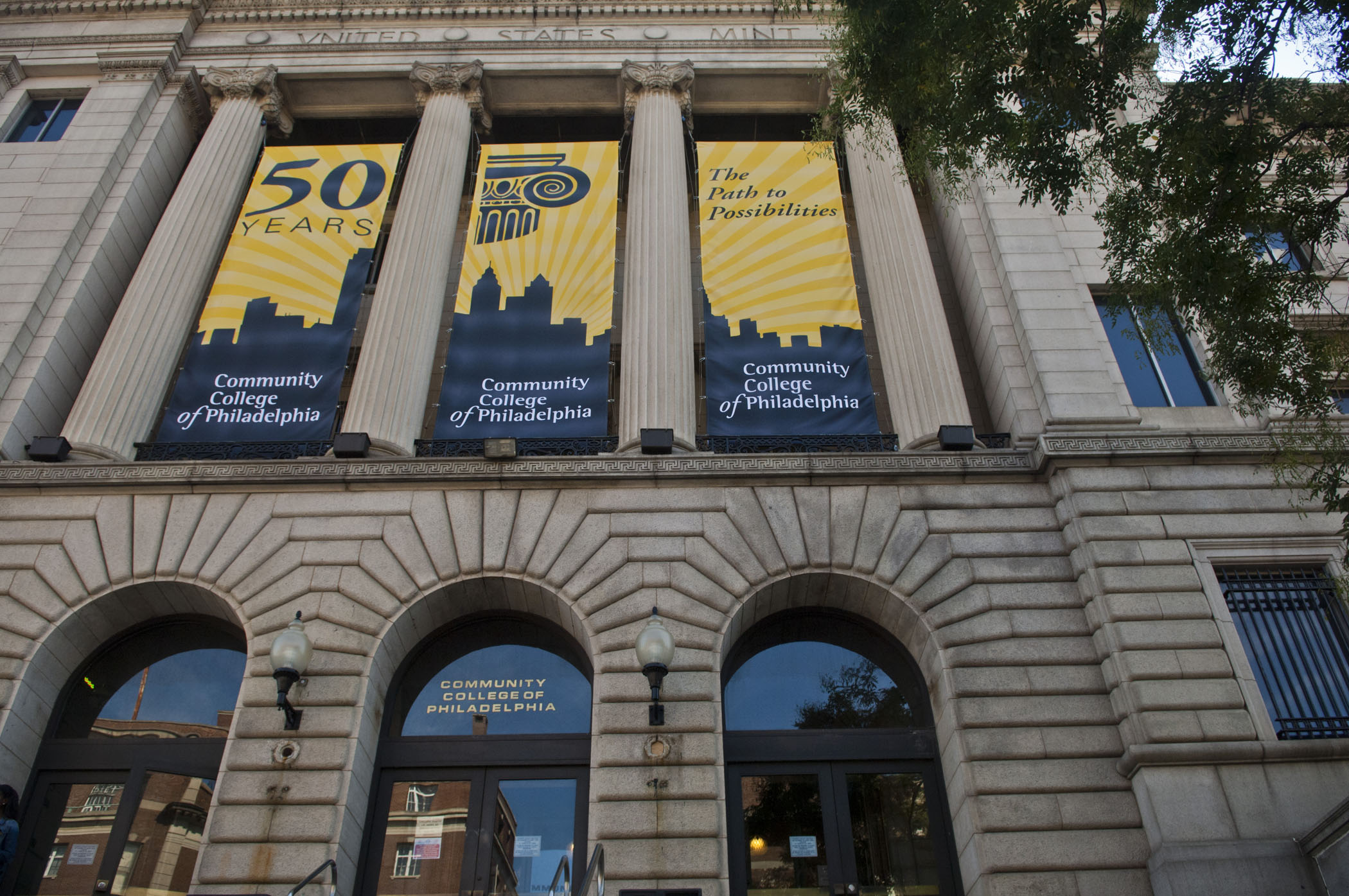 Community College of Philadelphia Mint Building decorated with banners celbrating the College's 50th Anniversary. Building was formerly the Third Philadelphia U.S. Mint.